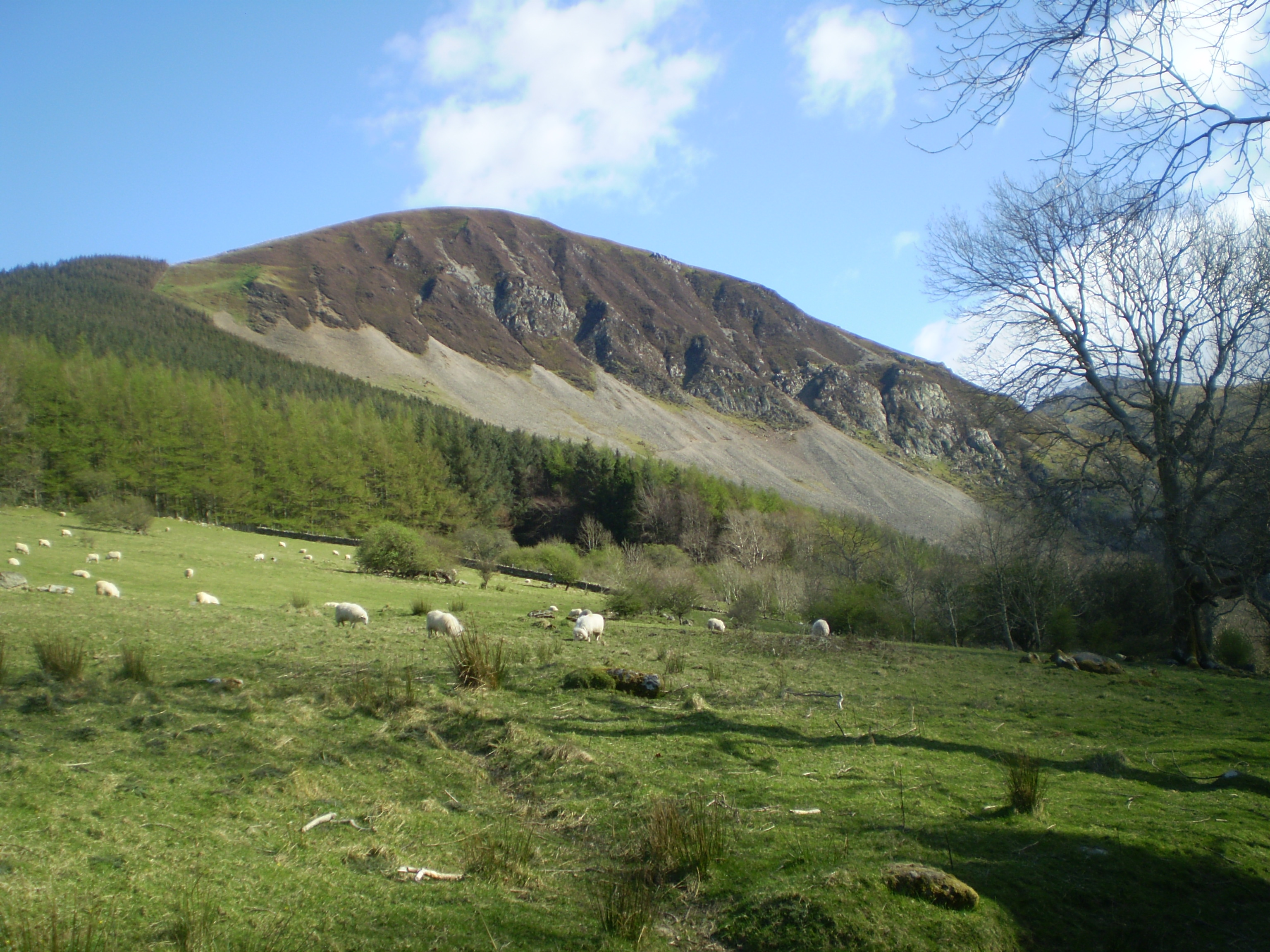 Llwytmor Bach from Aber Valley, north wales